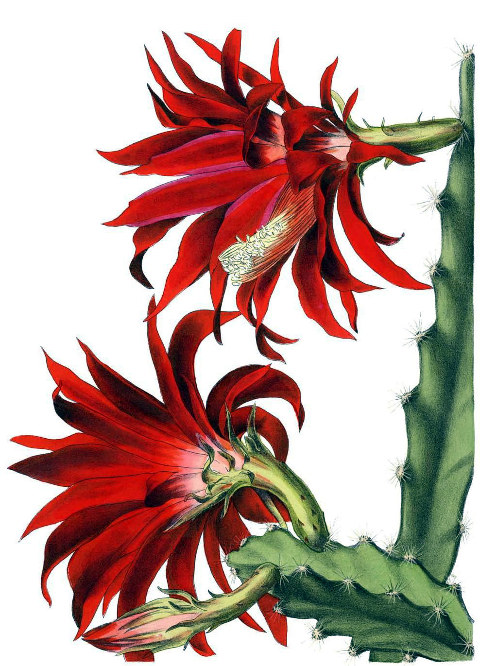 Echinocereus coccineus